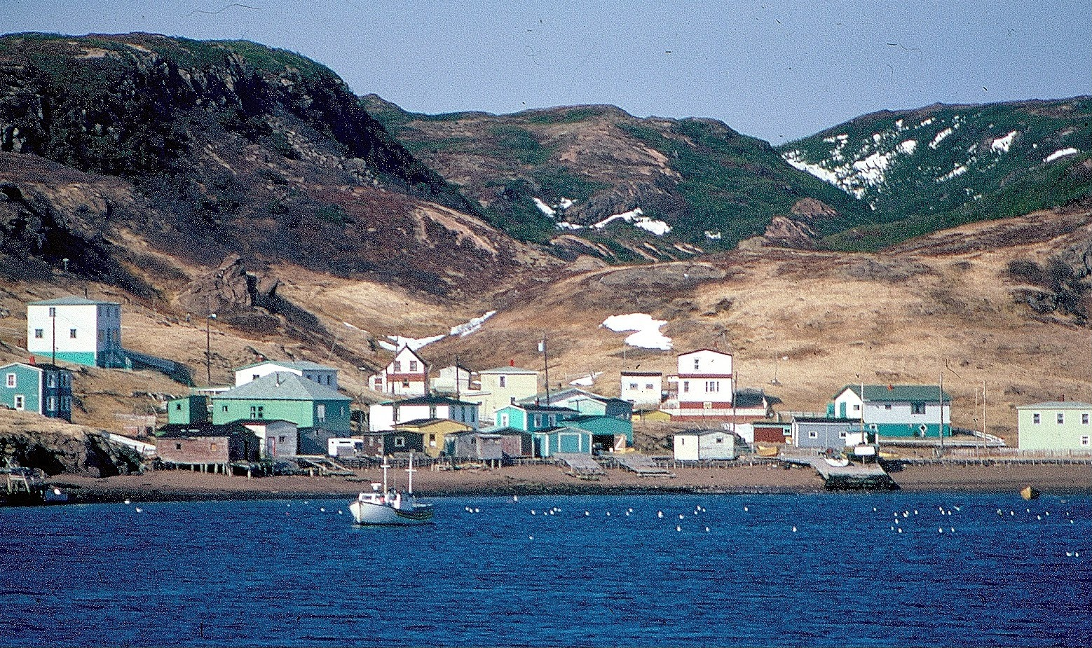 Coombs Cove - c 1983